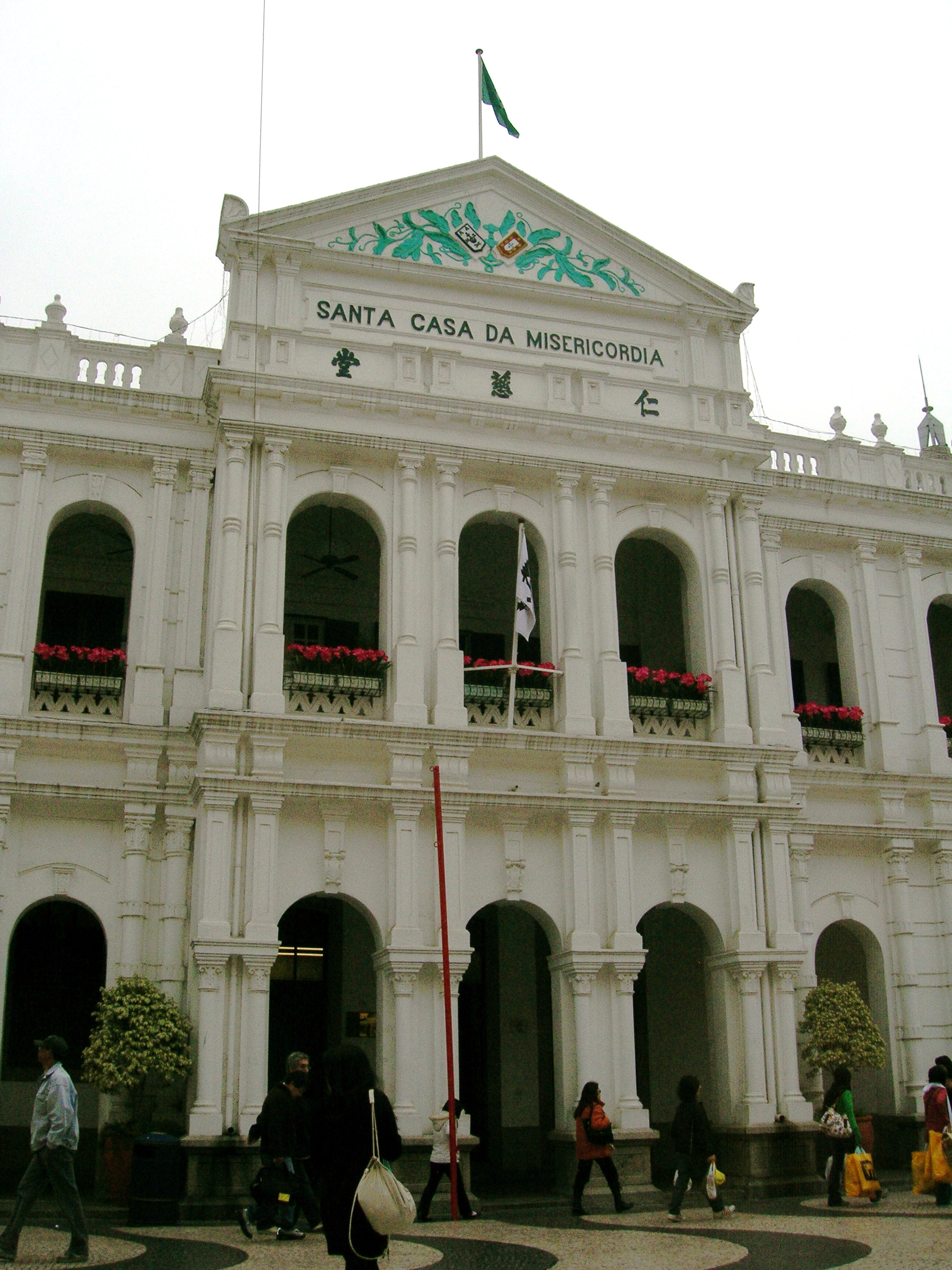 Santa Cada da Misericordia